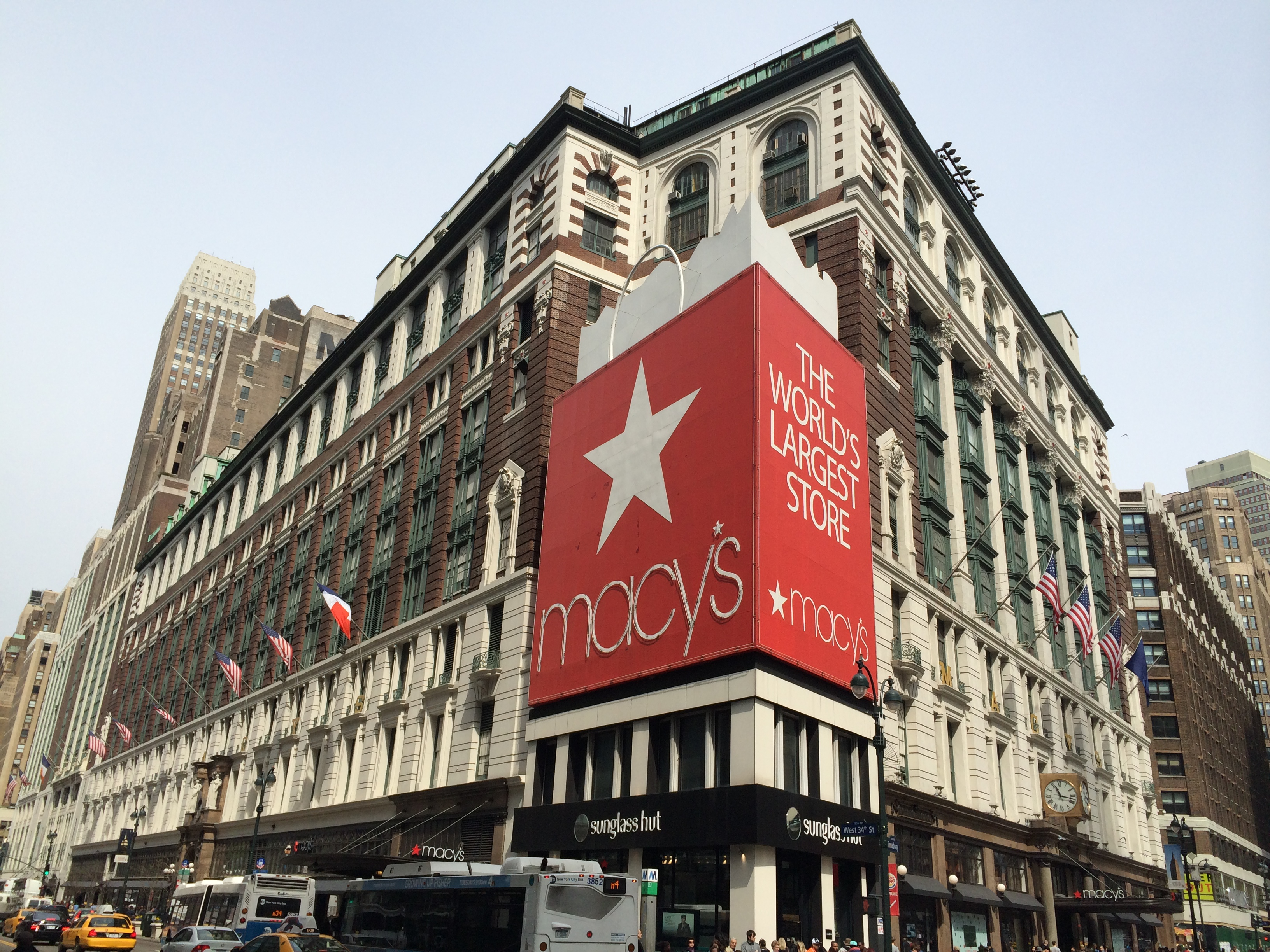 Macy's Department Store - New York - USA